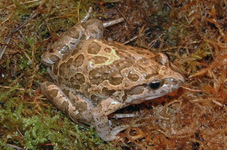 Discoglossus pictus (Otth 1837) Adult, Terrasini, Italy